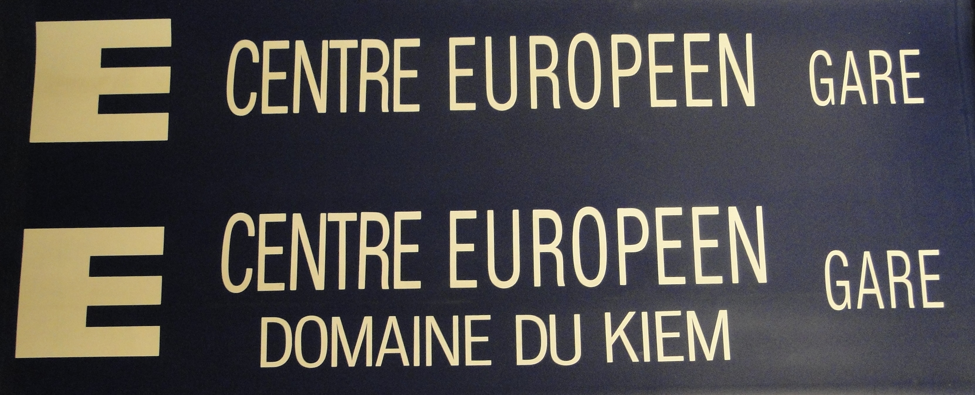 Luxembourg, AVL: old rollsign of former route E